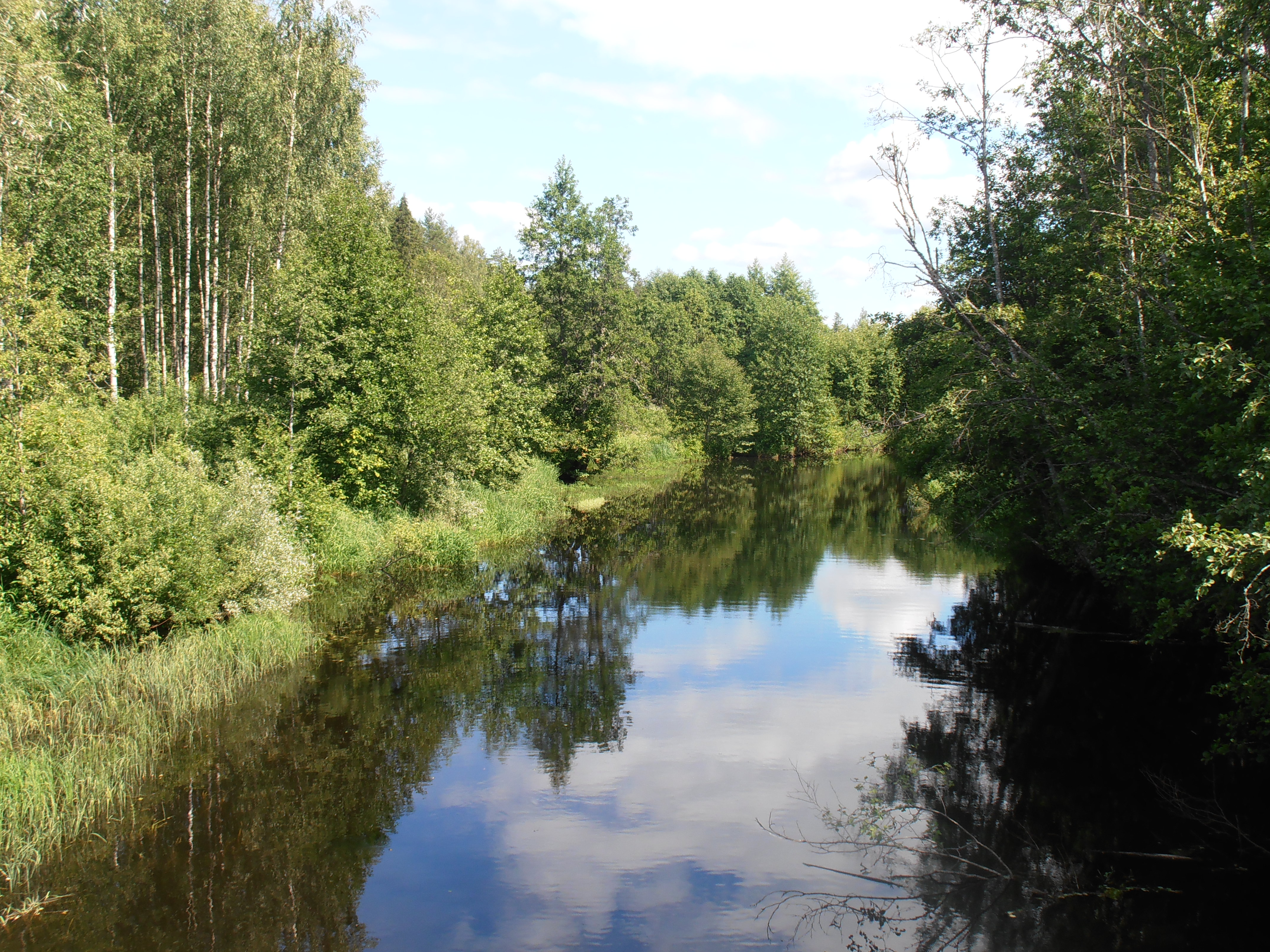 Õhne River (Omuļupe) in Latvia